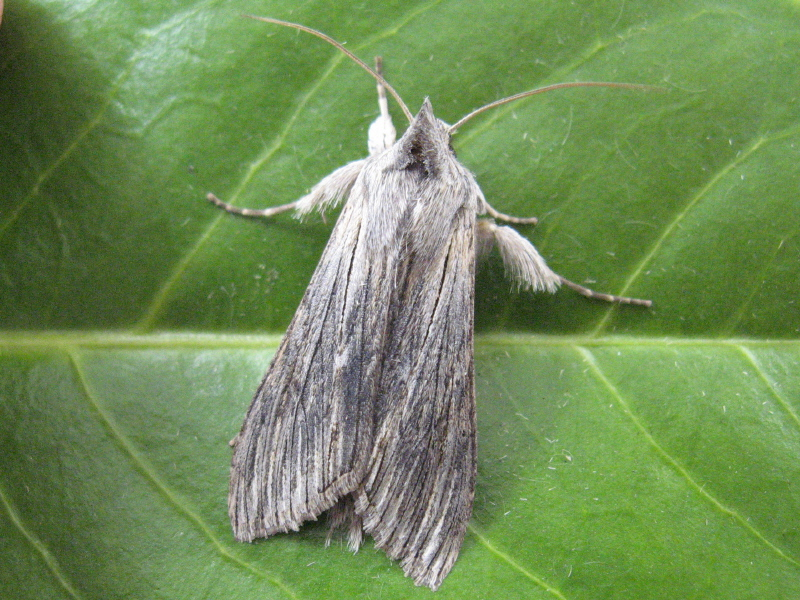 Cucullia chamomillae, location: The Netherlands - Ossenisse - Noordhofpolder